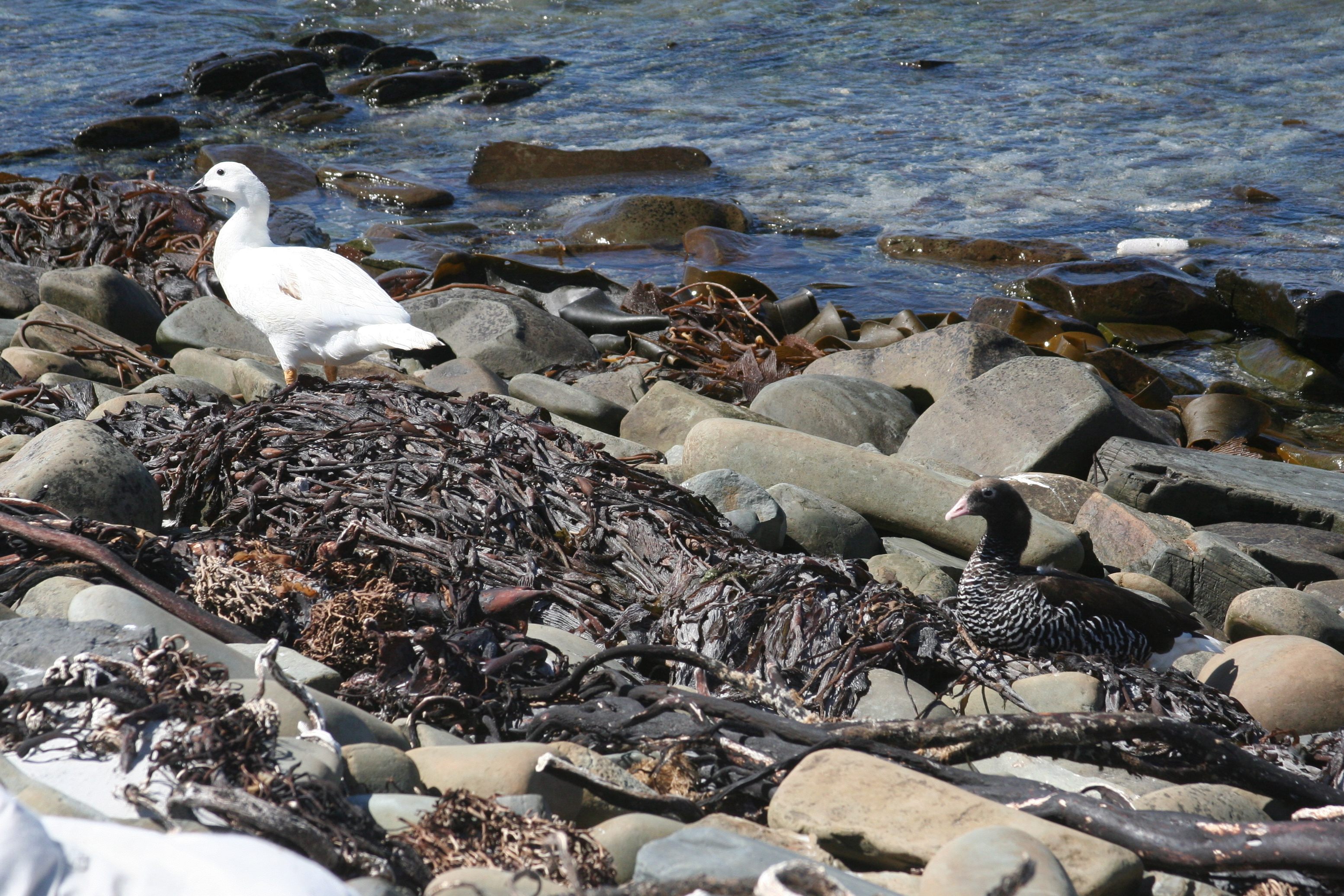 A pair of Kelp Geese on the far end of Bertha's Beach, East Falkland.